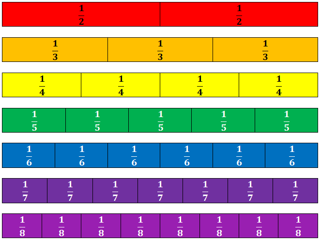 This shows the same length bar divided into several different unit fractions. It can help find equivalent fractions and compare relative sizes of fractions.